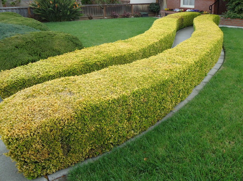 Hedges on a lawn in Santa Clara, California